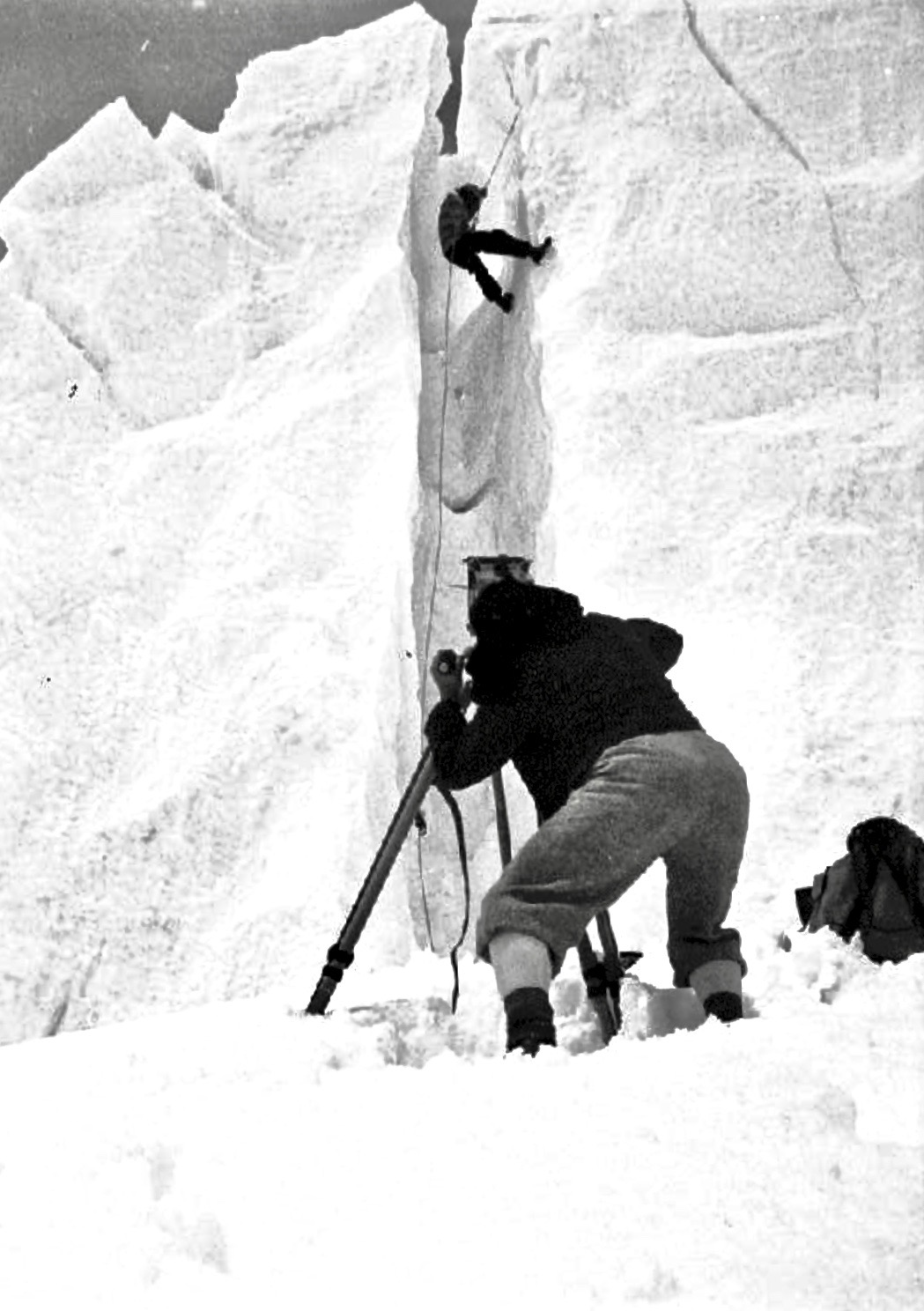 German cinematographer Sepp Allgeier (1895–1968) during a shooting for a mountain movie.